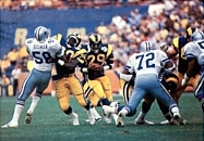 A football card from the 1986 Jeno's Pizza NFL football card stickers set of Los Angeles Rams' running back Eric Dickerson rushing the ball against the Dallas Cowboys in the 1985 NFC Divisional Playoffs game on January 4, 1986. The card is numbered #23 in the set. The back of the card reads: THE DAY DICKERSON DESTROYED DALLAS Rams running back Eric Dickerson slices through a hole behind teammate Barry Redden's block on Dallas linebacker Mike Hegman, as the Rams blank the Cowboys 20-0 in their 1985 Divisional Playoff Game. Dickerson set an all-time playoff mark by rushing for 248 yards, including touchdown sprints of 40 and 55 yards.